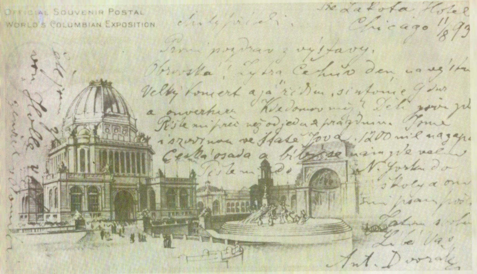 Antonin Dvorak read to Karel Kozanek from Chicago